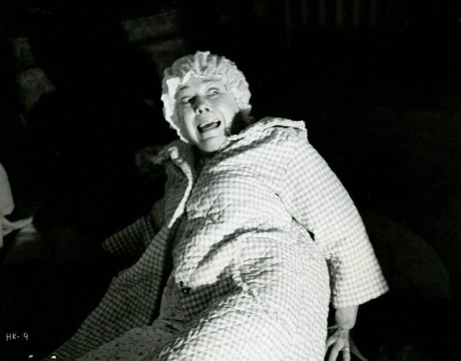 Mary Jane Higby in The Honeymoon Killers press photo, 1969